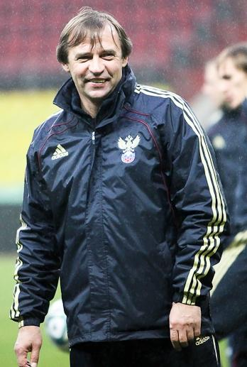 Aleksandr Borodyuk working with the Russia national football team.